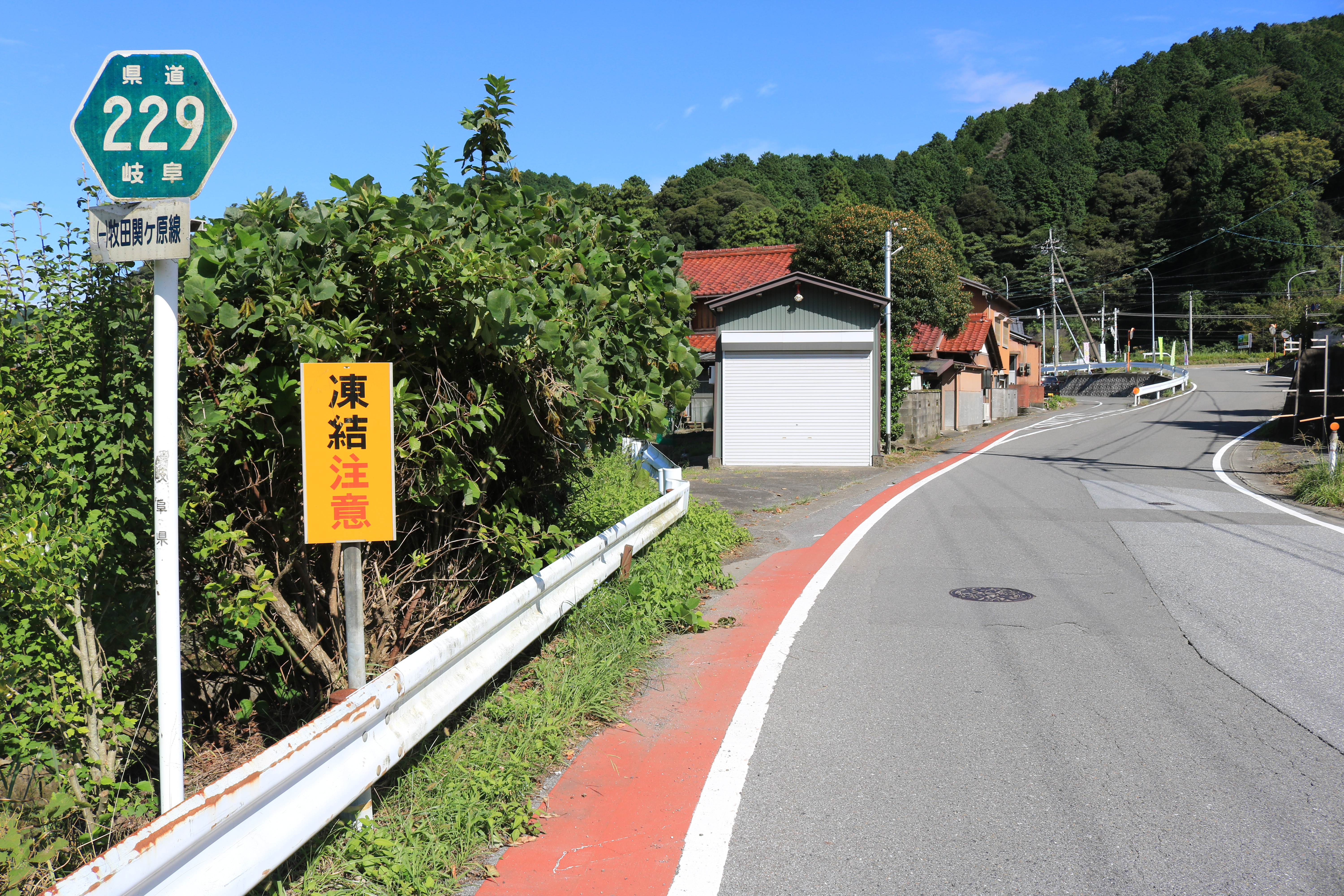 Gifu Prefectural Road Route 229 in Imasu, Sekigahara town, Gifu prefecture, Japan.